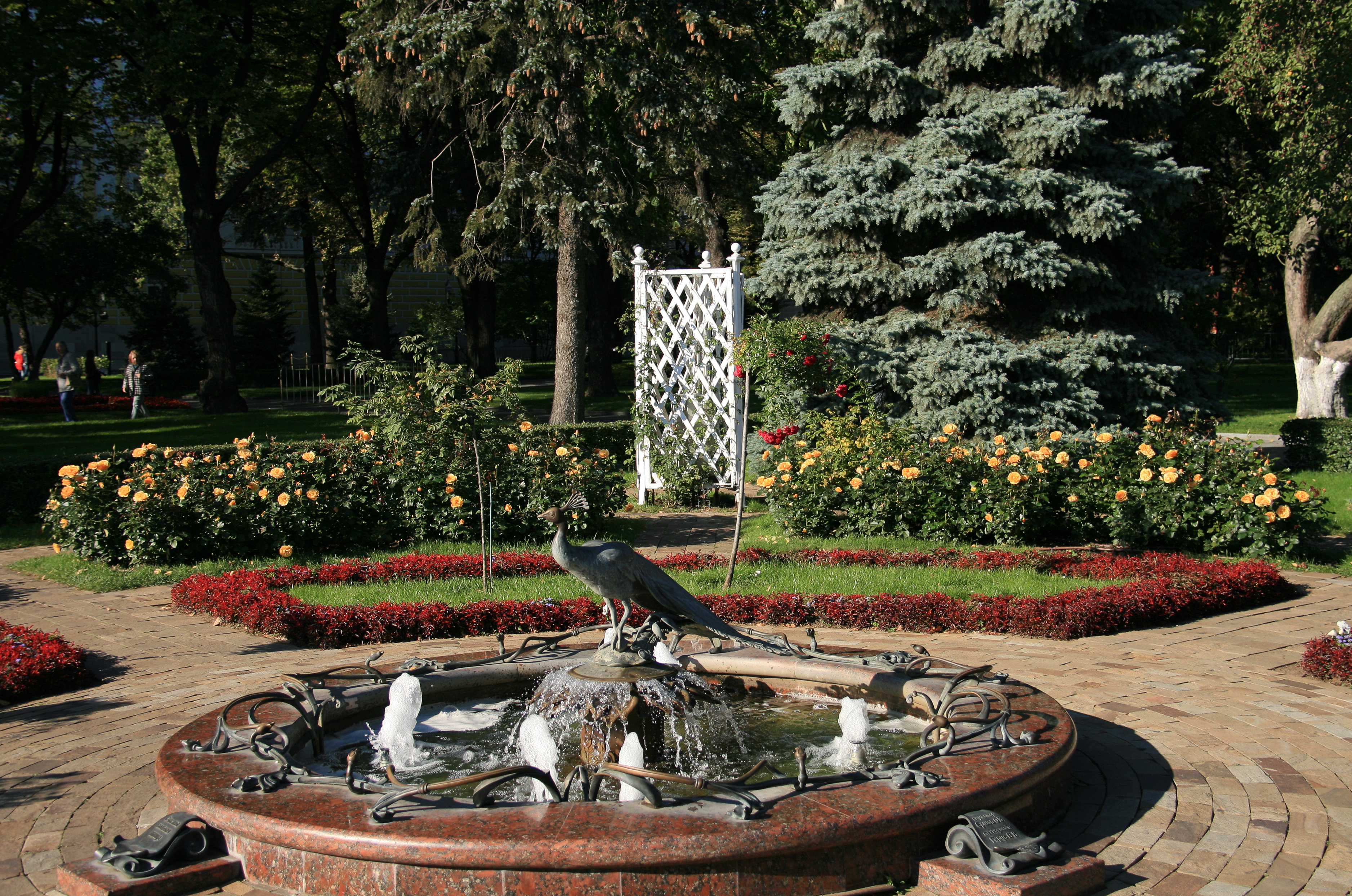 Tainitskyi Garden, Moscow Kremlin